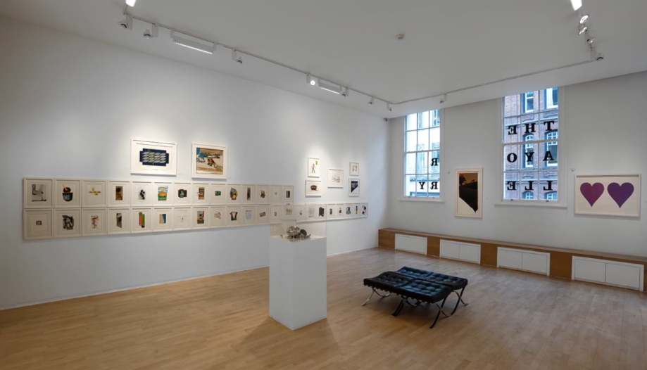 Mayor Gallery, London